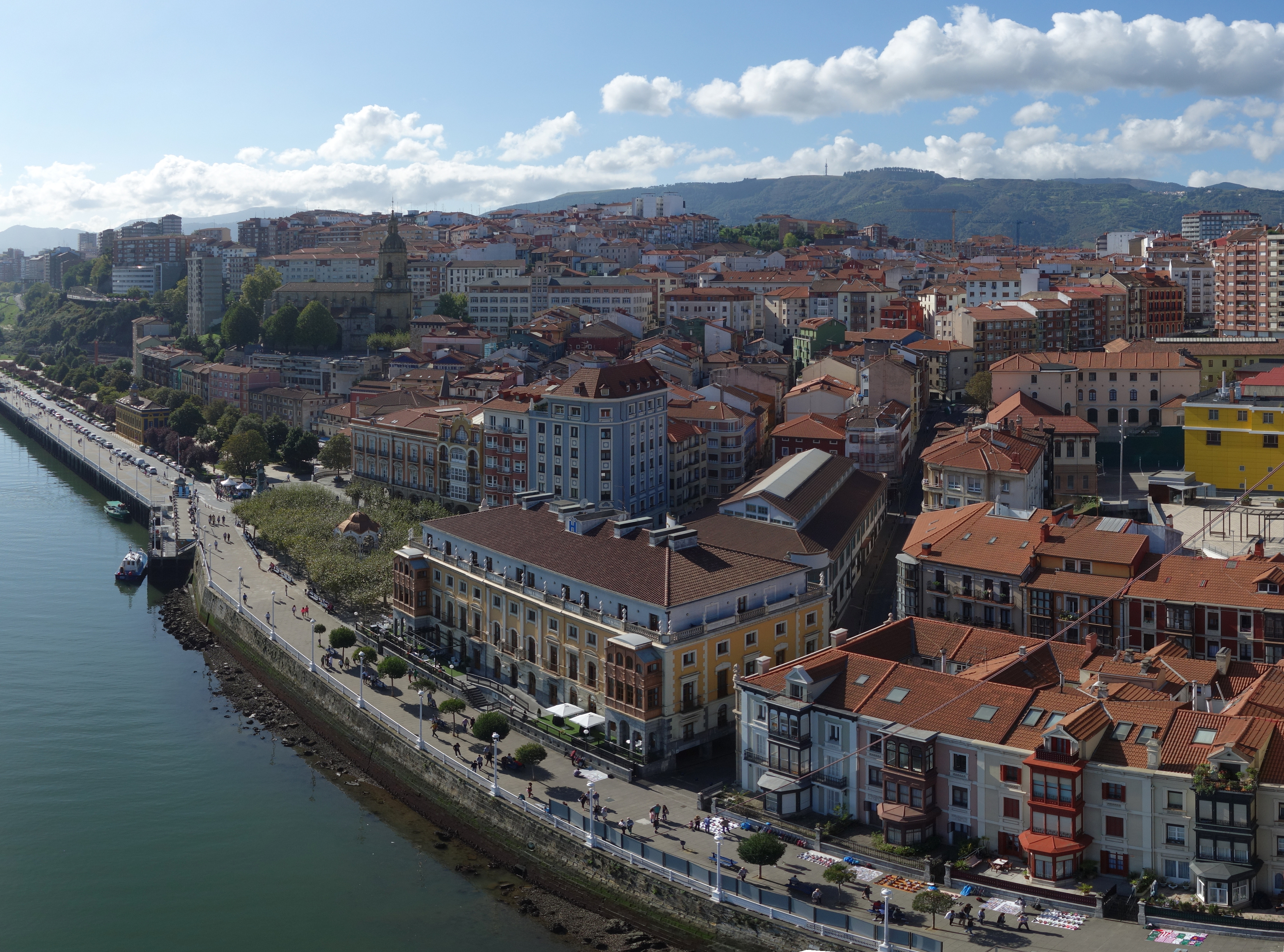 A view of Portugalete as seen from the Puente Transbordador de Vizcaya, looking to the south.